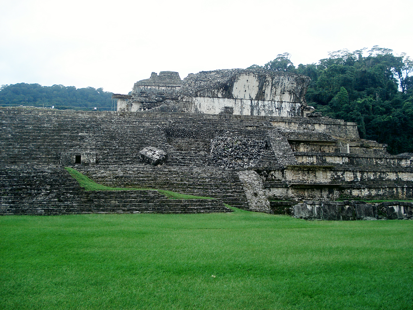 Pyramid on Palenque,Chiapas,México.